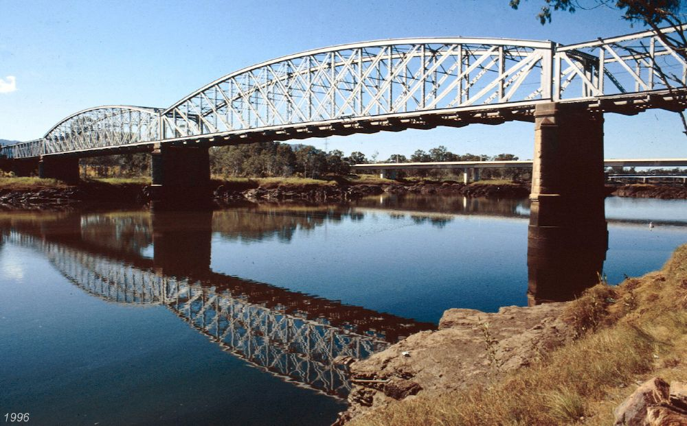 Alexandra Railway Bridge (1996)